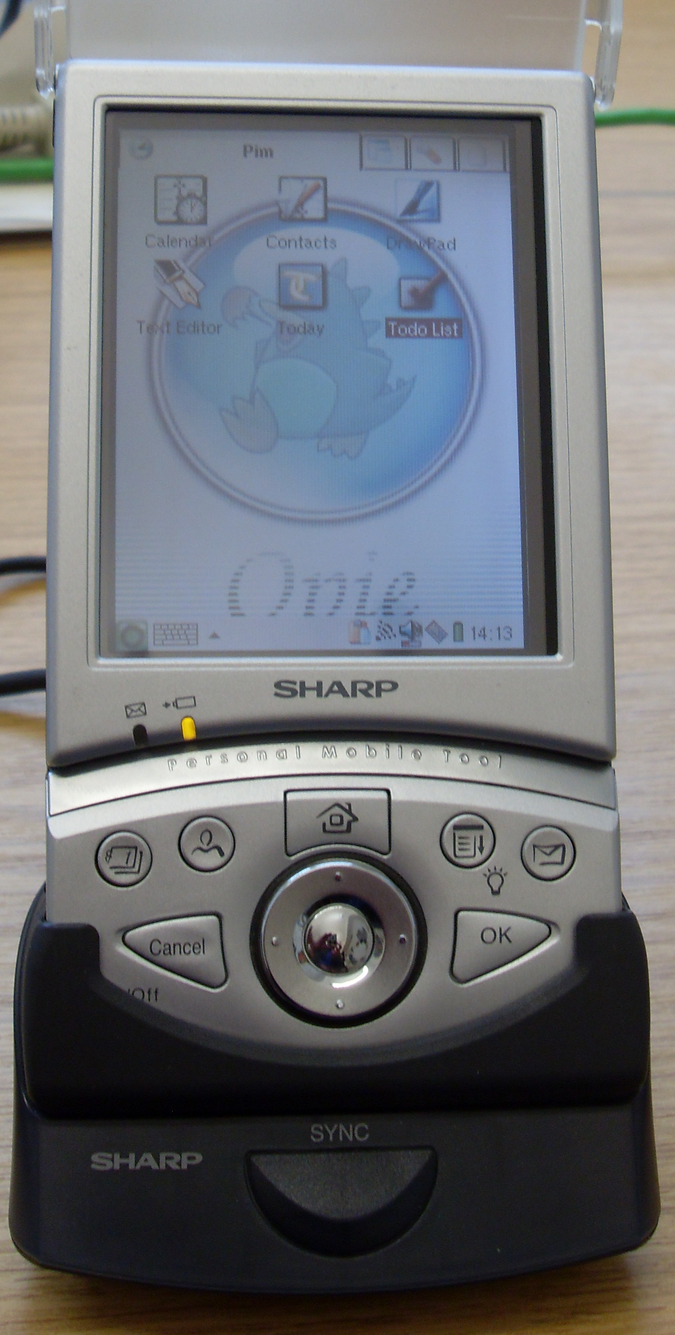 Sharp Zaurus SL-5500G